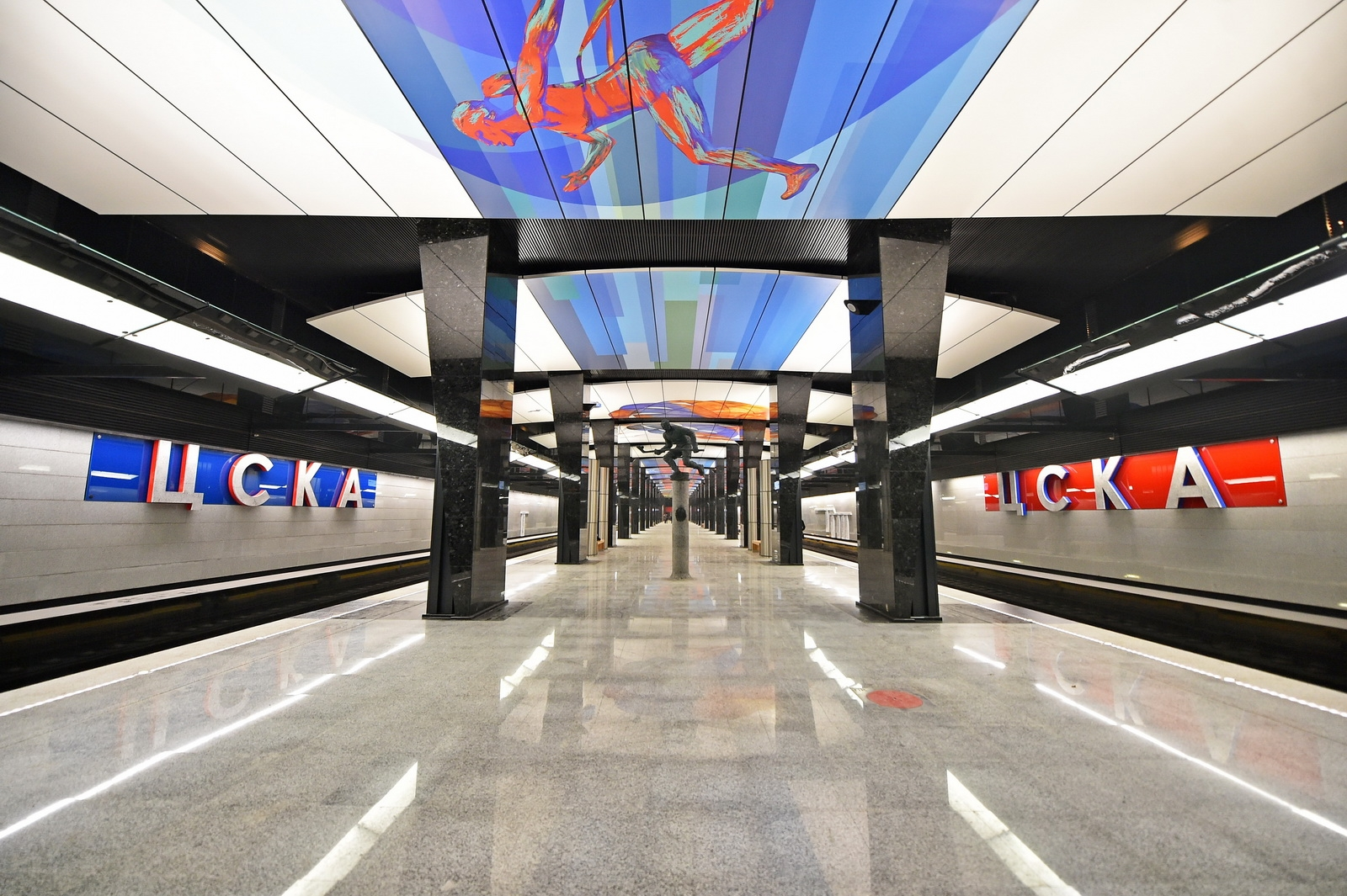 CSKA station of the Moscow Metro